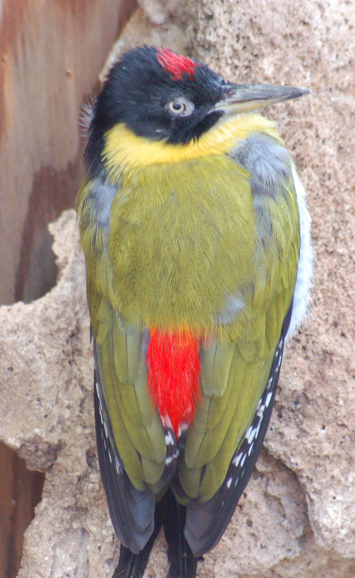 A photograph of a Black-headed Woodpeckeren (Picus erythropygius en ). Photo taken at the National Aviary.